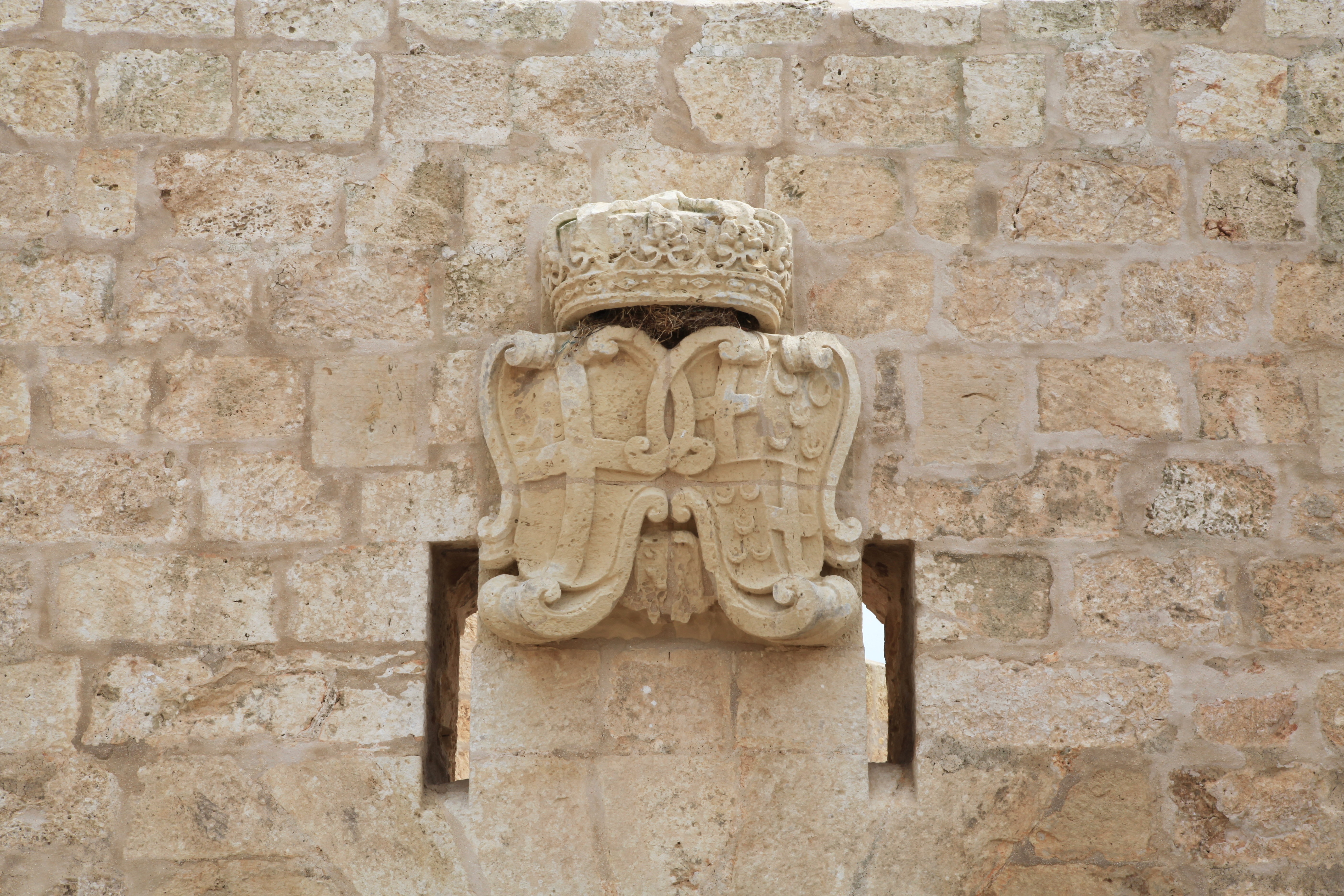 Mistra Coastal Battery at Triq il-Mistra in Mellieħa, Malta